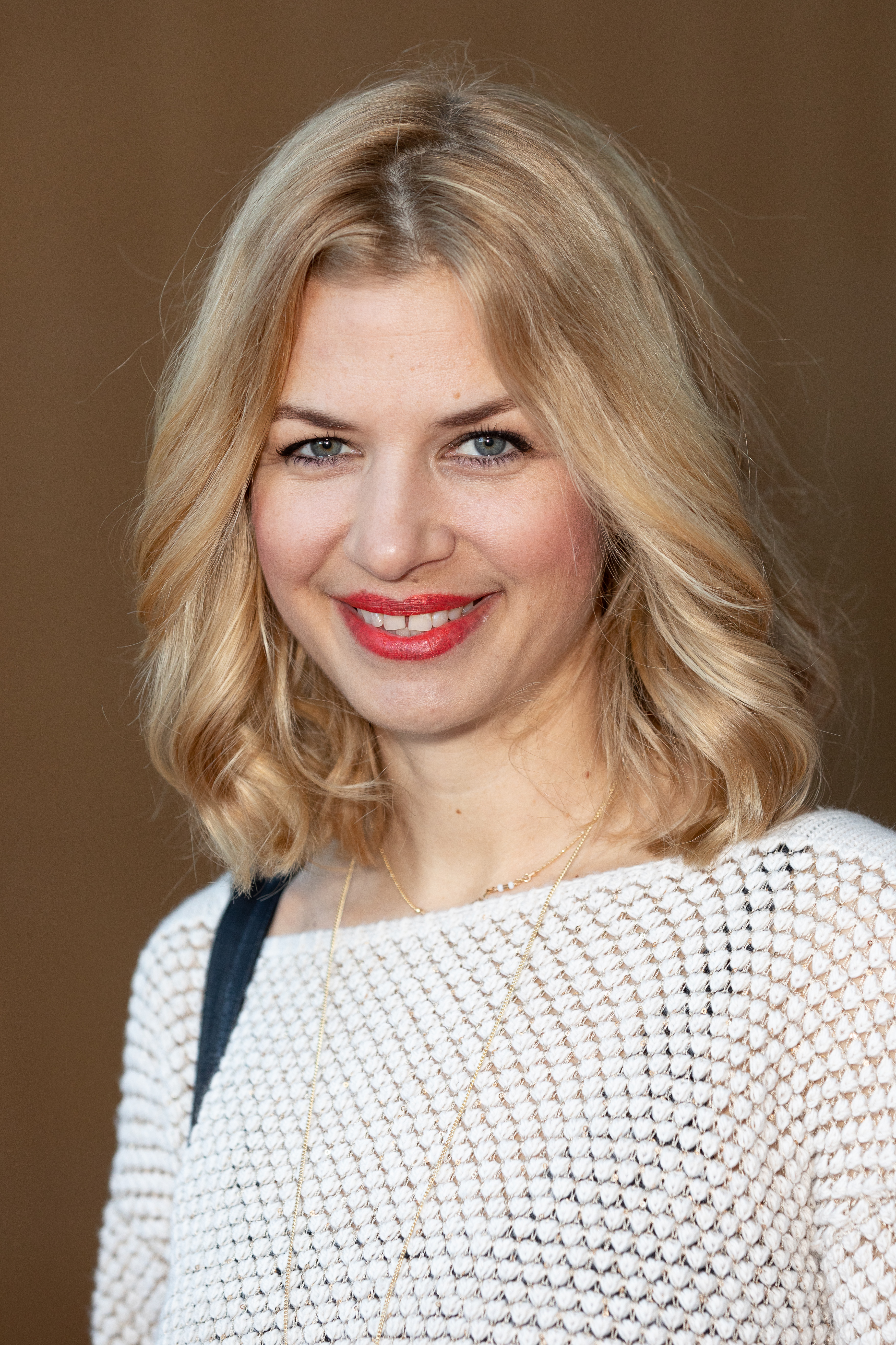 Susan Sideropoulos at the Hessian reception during the Berlinale 2019